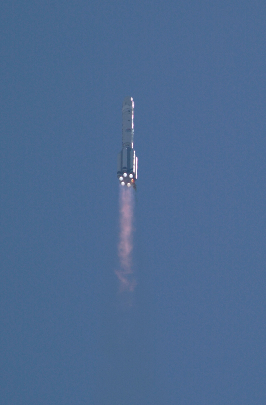 JSC2000-E-18579 - The Zvezda Service Module, onboard a Russian Proton Rocket, soars high above the launch tower at 11:56 p.m. (CDT) July 11, or 4:56 GMT, July 12, 2000 from Kazakhstan's Baikonur Cosmodrome. The stack lifted off from pad 23 at launch complex 81. Zvezda will orbit Earth for two weeks as flight controllers prepare for its rendezvous and docking with the International Space Station, which is scheduled for 7:44 p.m. (CDT), July 25, 2000, or 0:44 GMT July 26. Once docked, Zvezda will become the third major component of the station, joining Node 1 or Unity and the Functional Cargo Block (FGB) or Zarya.